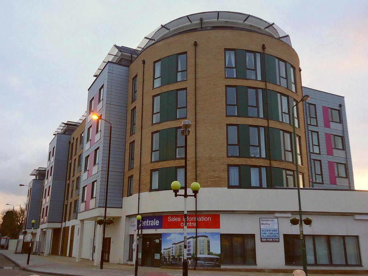 2013 development of luxury apartments located directly opposite Hackbridge railway station in the London Borough of Sutton